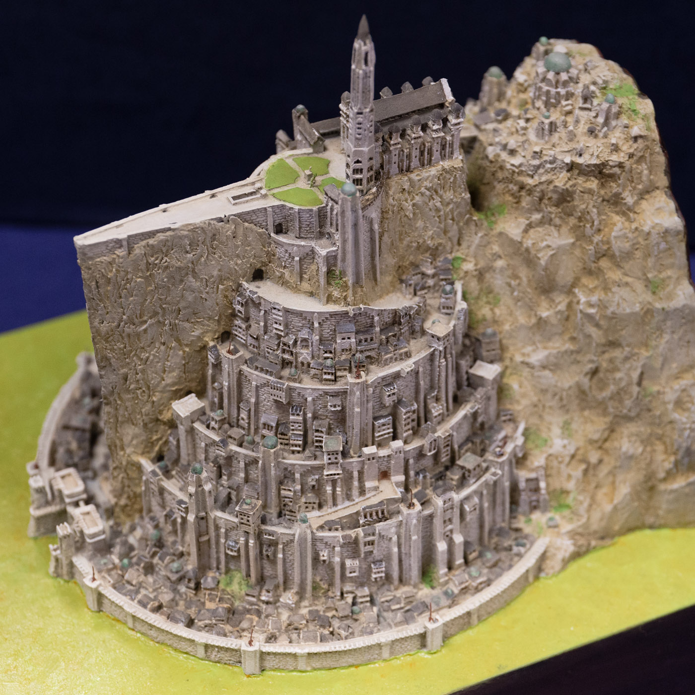 Minas tirith-2004